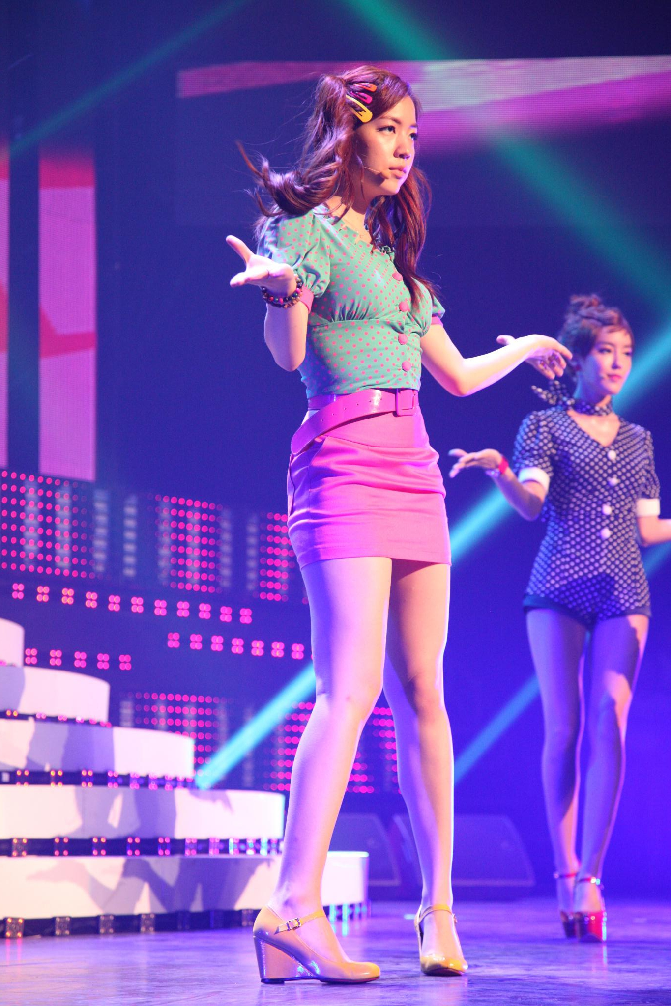 티아라 @ Cyworld Dream Music Festival 싸이월드 드림 뮤직 페스티벌_03